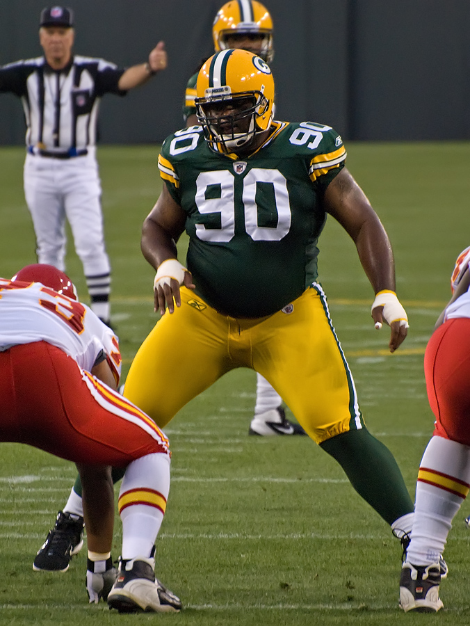 Kansas City Chiefs vs. Green Bay Packers at Lambeau Field on September 1, 2011. Photo by Mike Morbeck.